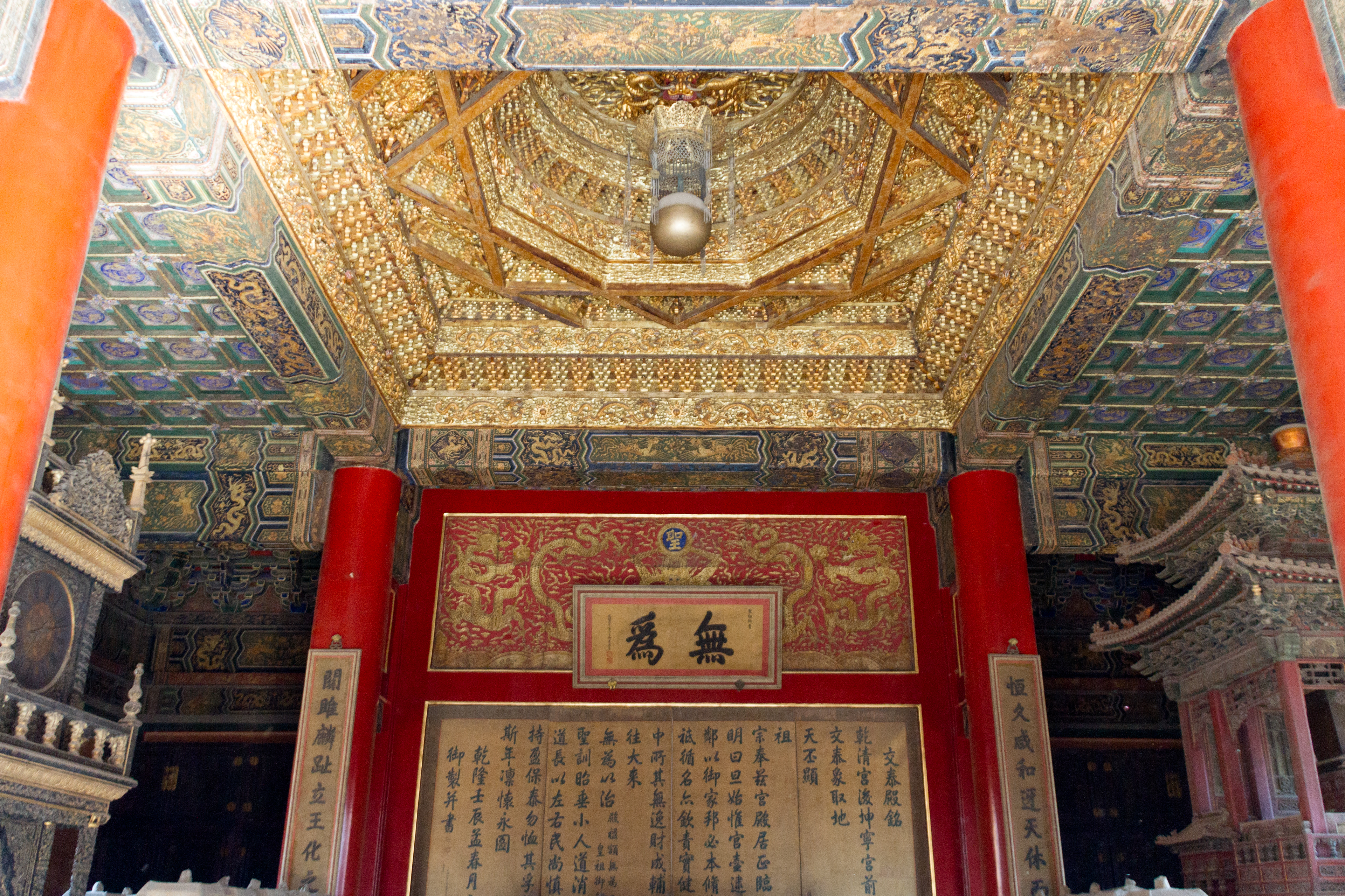 Hall of Union and Peace interior